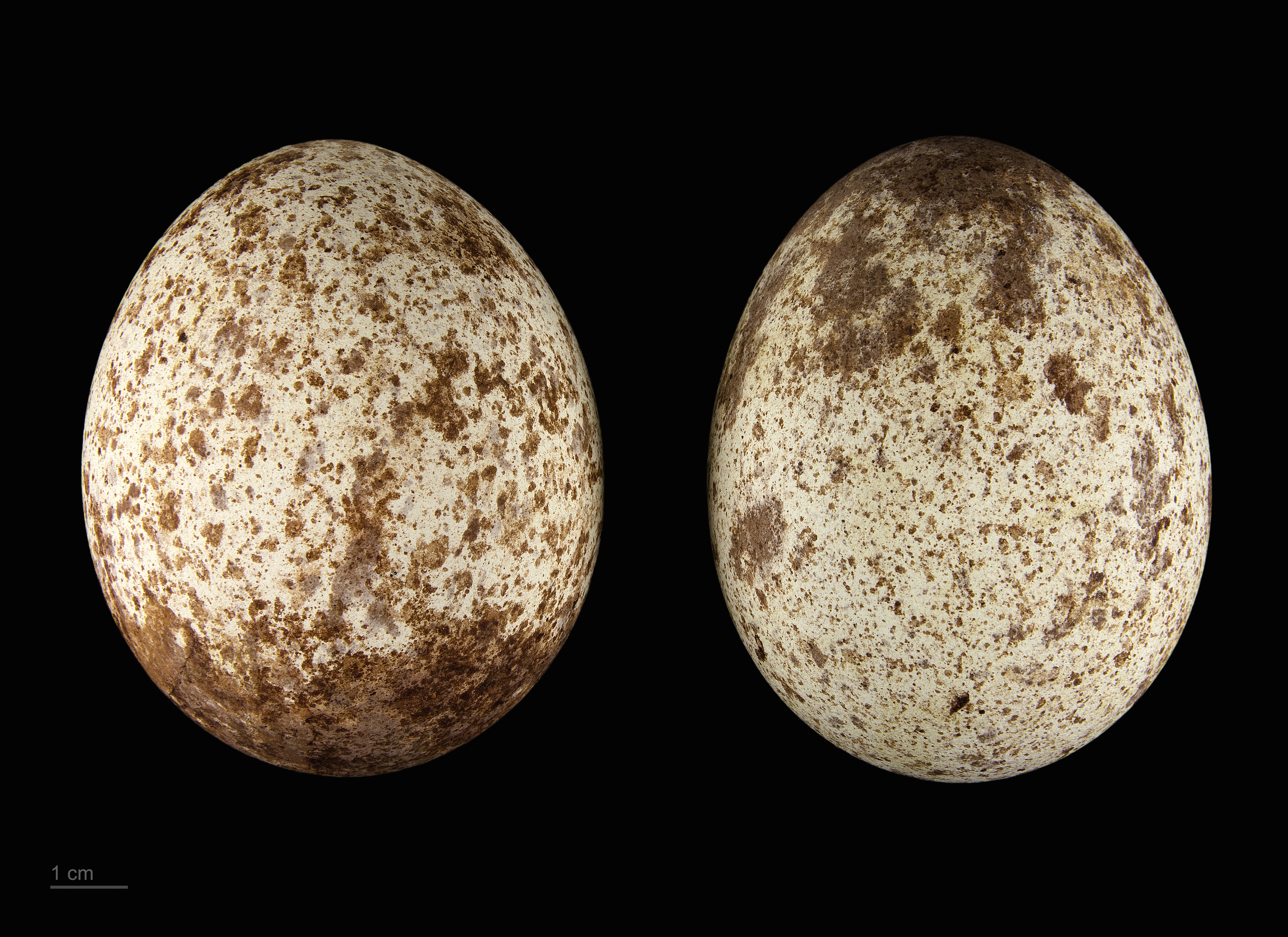 Eggs of Aquila chrysaetos homeyeri Two specimens of the same spawn ; collection of Jacques Perrin de Brichambaut.